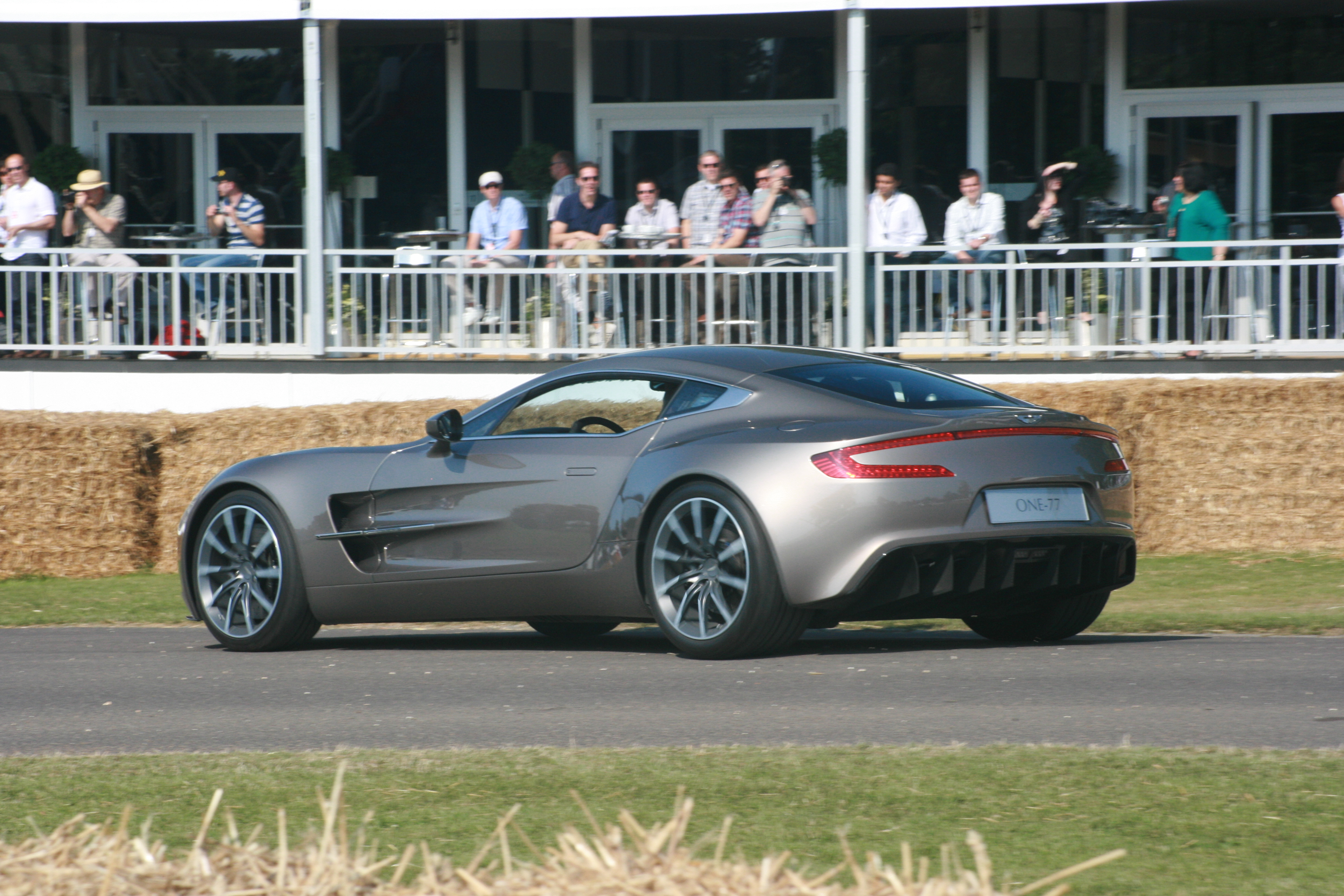 Aston Martin One-77